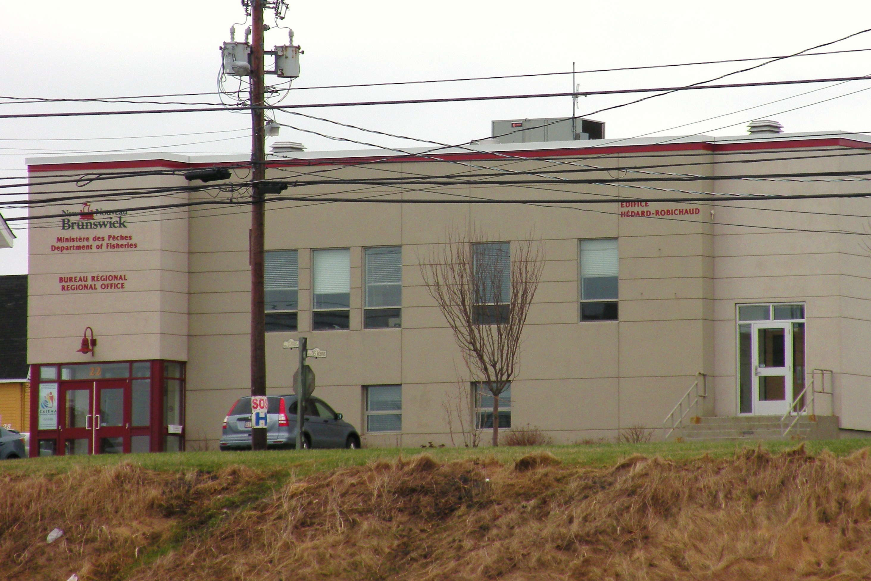 New Brunswick department of fisheries offices in Caraquet.